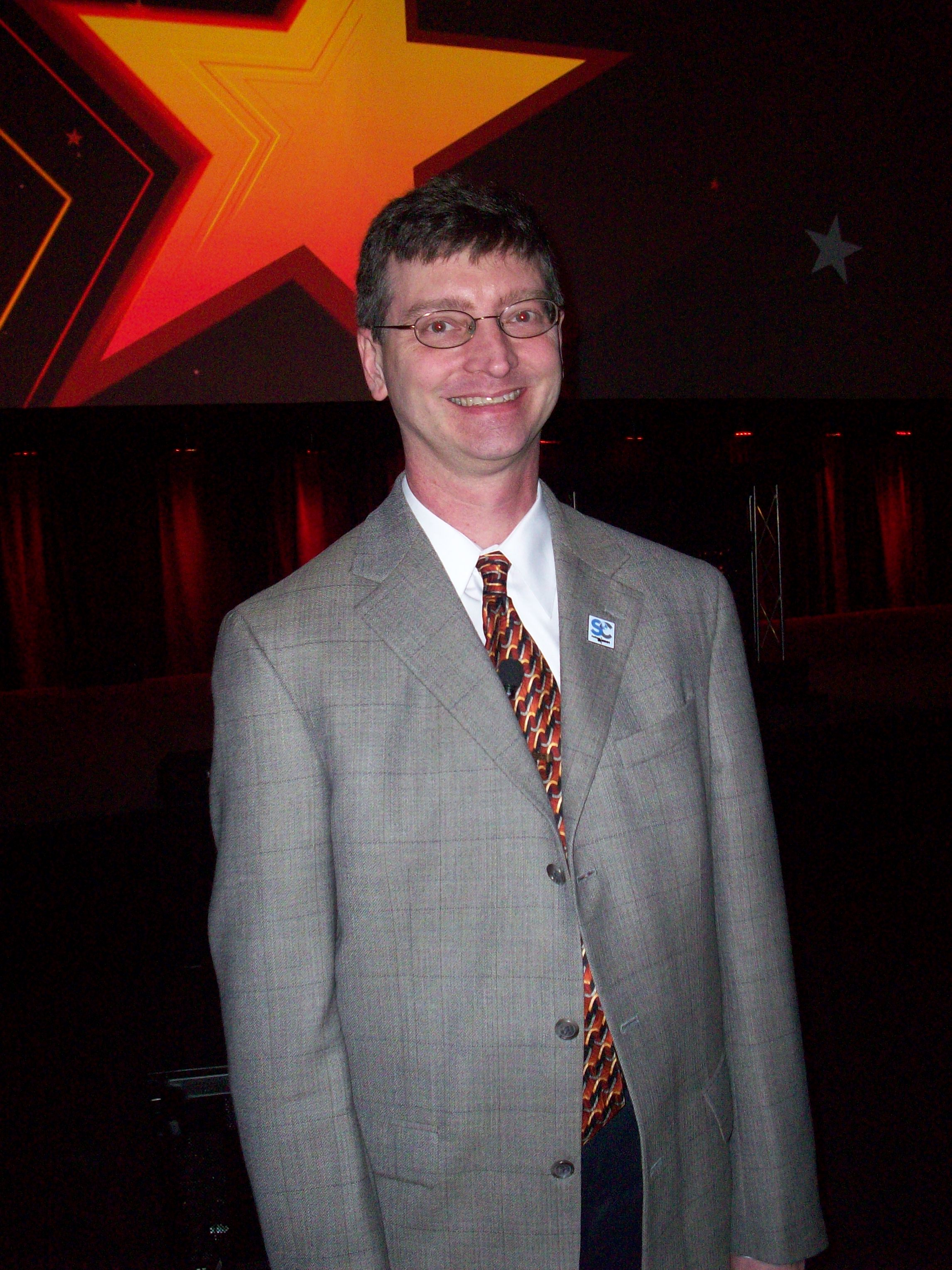 Bill Gropp. Taken at Supercomputing 2008